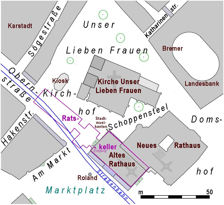 The municipal wine cellar ("Ratskeller") of Bremen partly is the basement of the townhall, but almost half of it is situated below the square of Unser Lieben Frauen Kirchhof. This part, in the 18th cdentury was the basement of the stock exchange. Kitchen and store-rooms of the Ratskeller are not depicted. They are localizied north of it under that sqare, the Neues Rathaus (New Townhall), and Domshof square.